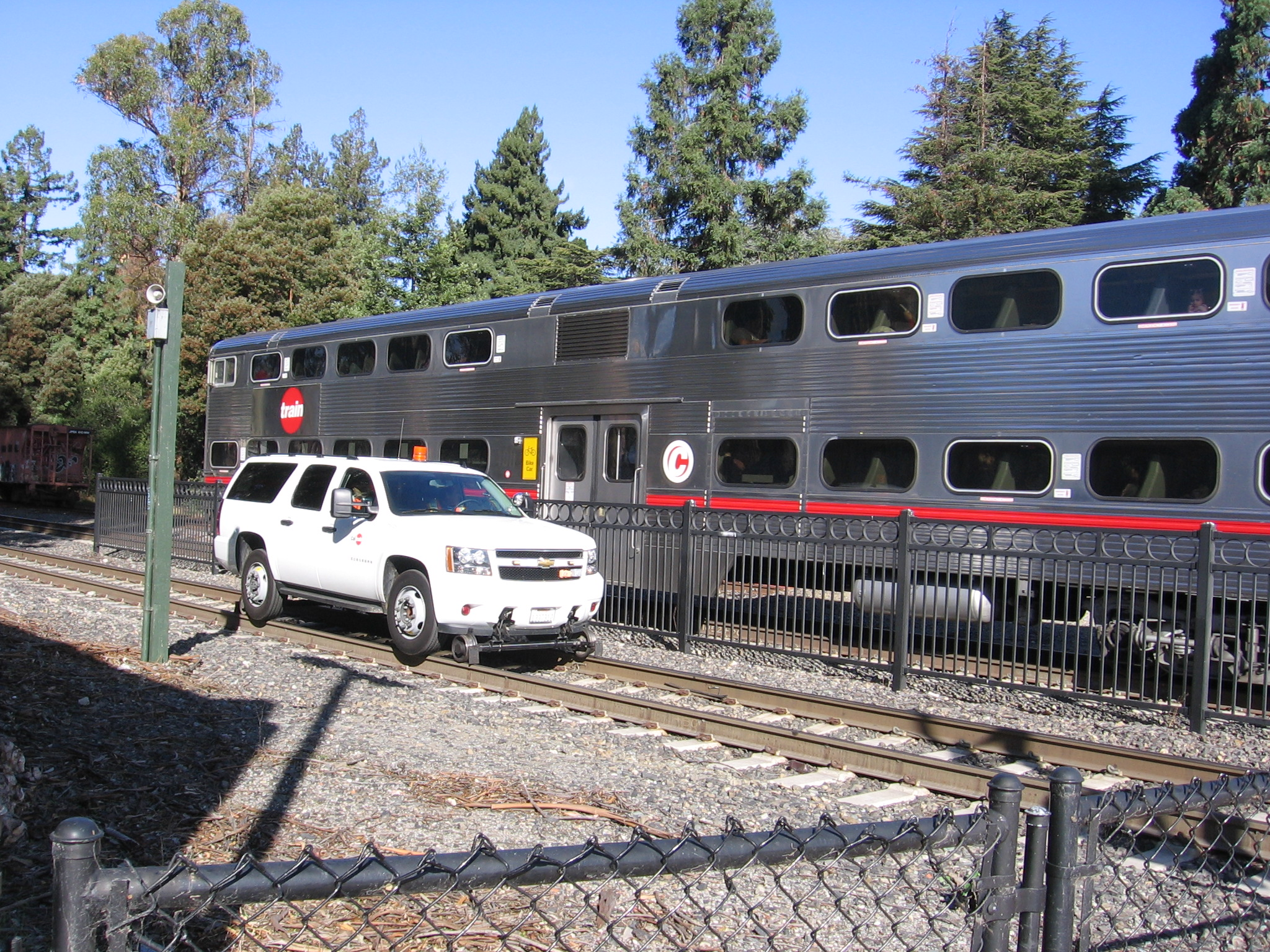 An inspection car heads south as a train heads north at the Burlingame Station in Burlingame, California, USA.